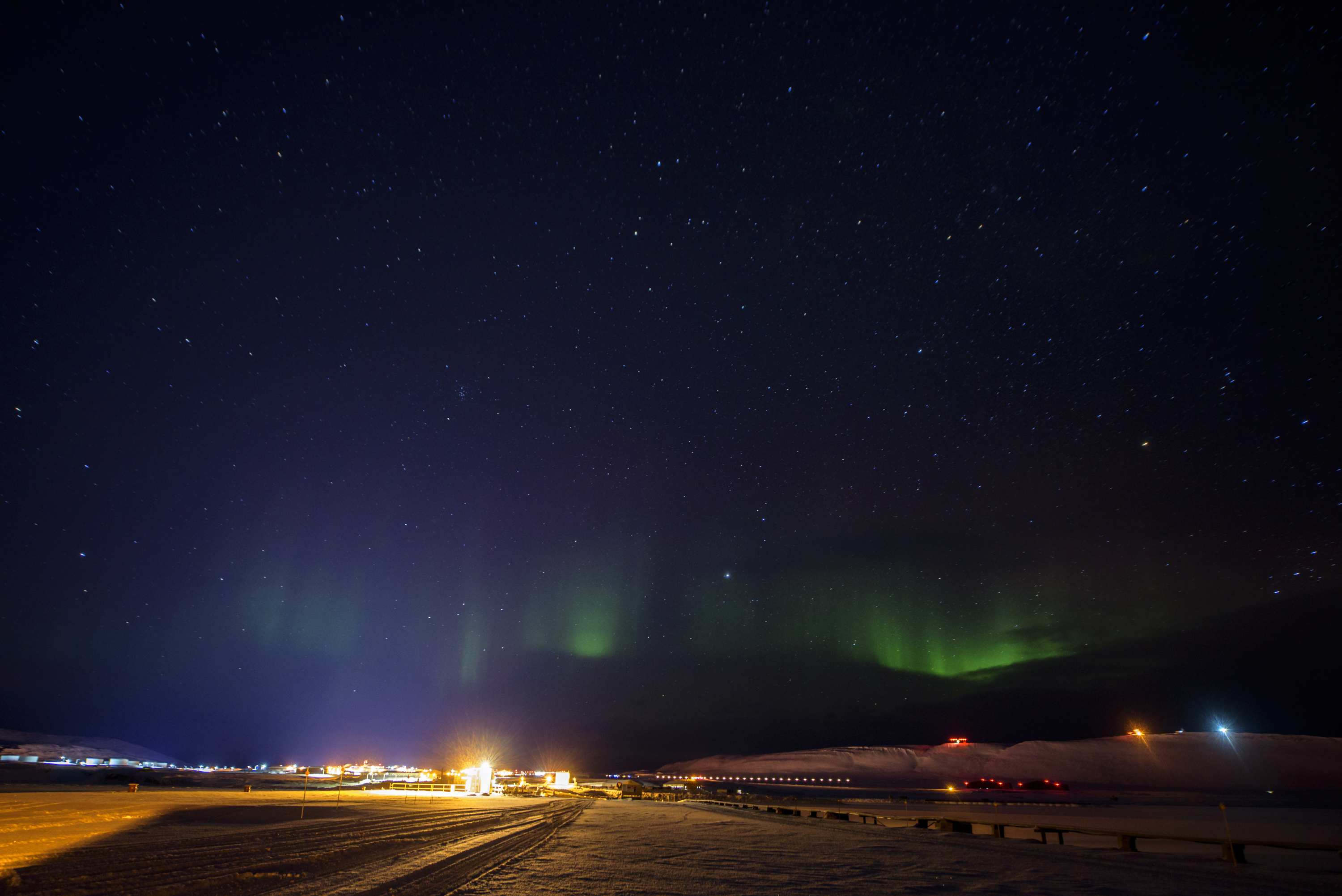 Gen. "Jay" Raymond, Air Force Space Command commander, visited Thule Air Base, Greenland Dec. 10-12, 2017 with AFSPC command chief, Chief Master Sgt. Brendan Criswell, Col. Jennifer Grant, 50th Space Wing commander, and Col. Devin Pepper, 21st Operations Group. (U.S. Air Force photo by Senior Airman Dennis Hoffman)